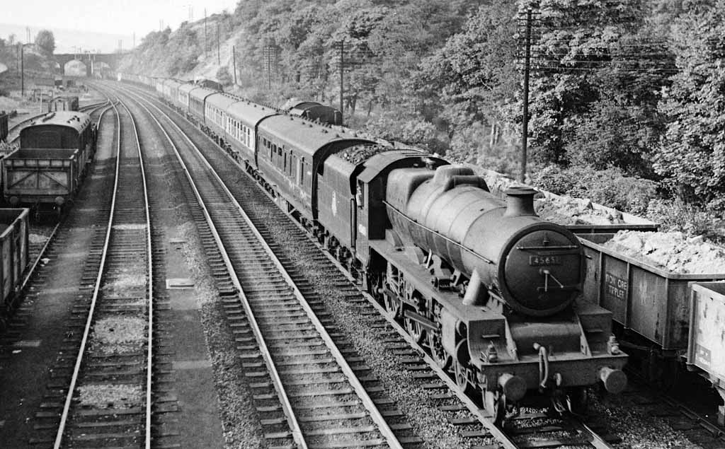 Up express approaching Chesterfield (Midland) Station. View northward, towards Sheffield, Leeds etc., from just north of Chesterfield Midland Station, with LMS 'Jubilee' 6P 4-6-0 No. 45651 'Shovell' on the 16.45 Bradford (Forster Square) to Bristol express. This four-track section of the Midland Main Line betwen Tapton Junction and Clay Cross was immensely busy, as all north-south main line passenger and freight traffic was funnelled through. Goods and mineral trains ran under Permissive Block on the two tracks behind the station: here can be seen a Down iron-ore train, following a light engine following another Down freight.